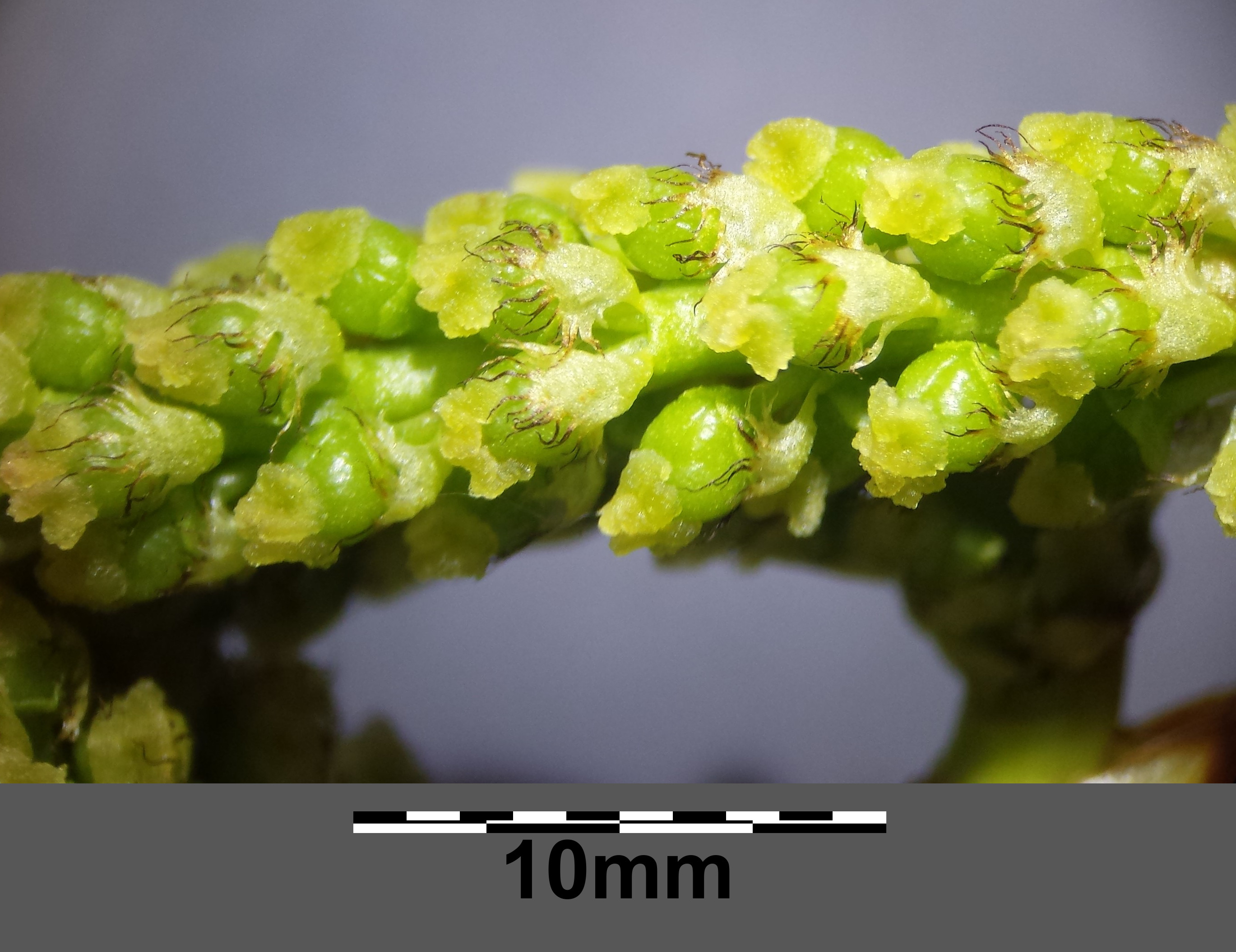 Spike (♀ individual) Taxonym: Populus nigra ss Fischer et al. EfÖLS 2008 ISBN 978-3-85474-187-9 Location: Donauauen near Schönau an der Donau, district Bruck an der Leitha, Lower Austria - ca. 150 m a.s.l. Habitat: dam